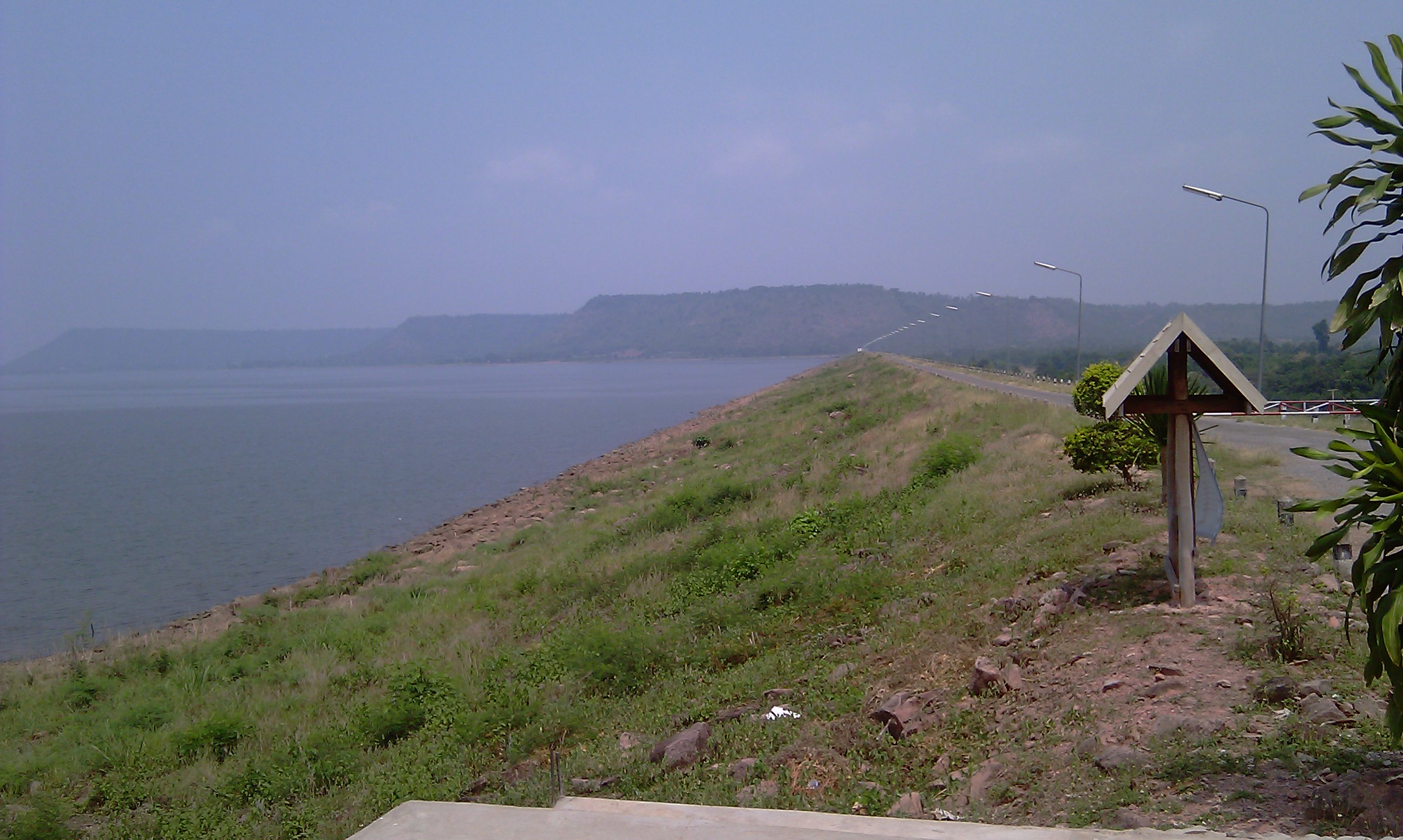 Khok Krachai, Khon Buri District, Nakhon Ratchasima, Thailand